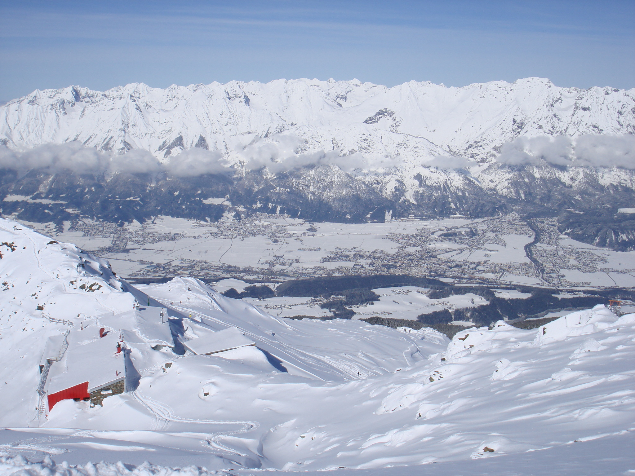 View from the Glungezer in the Tuxer Alps, Tyrol, to the Inn-Valley and to the Karwendel. In the Inntal from left to the right side: Rum, Thaur, Hall, Absam, Mils. In the Foreground the Glungezerhütte.